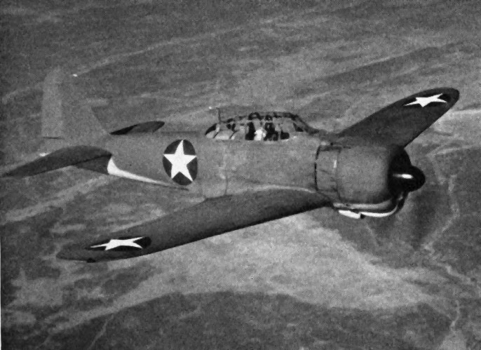 A Japanese Mitsubishi A6M2 Zero fighter in flight in 1942. It was captured intact by U.S. forces in July 1942 on Akutan Island, Alaska (USA) and became the first flyable Zero acquired by the United States during the Second World War. It made its first test flight in the U.S. on 20 September 1942 and was destroyed during a training accident in February 1945.